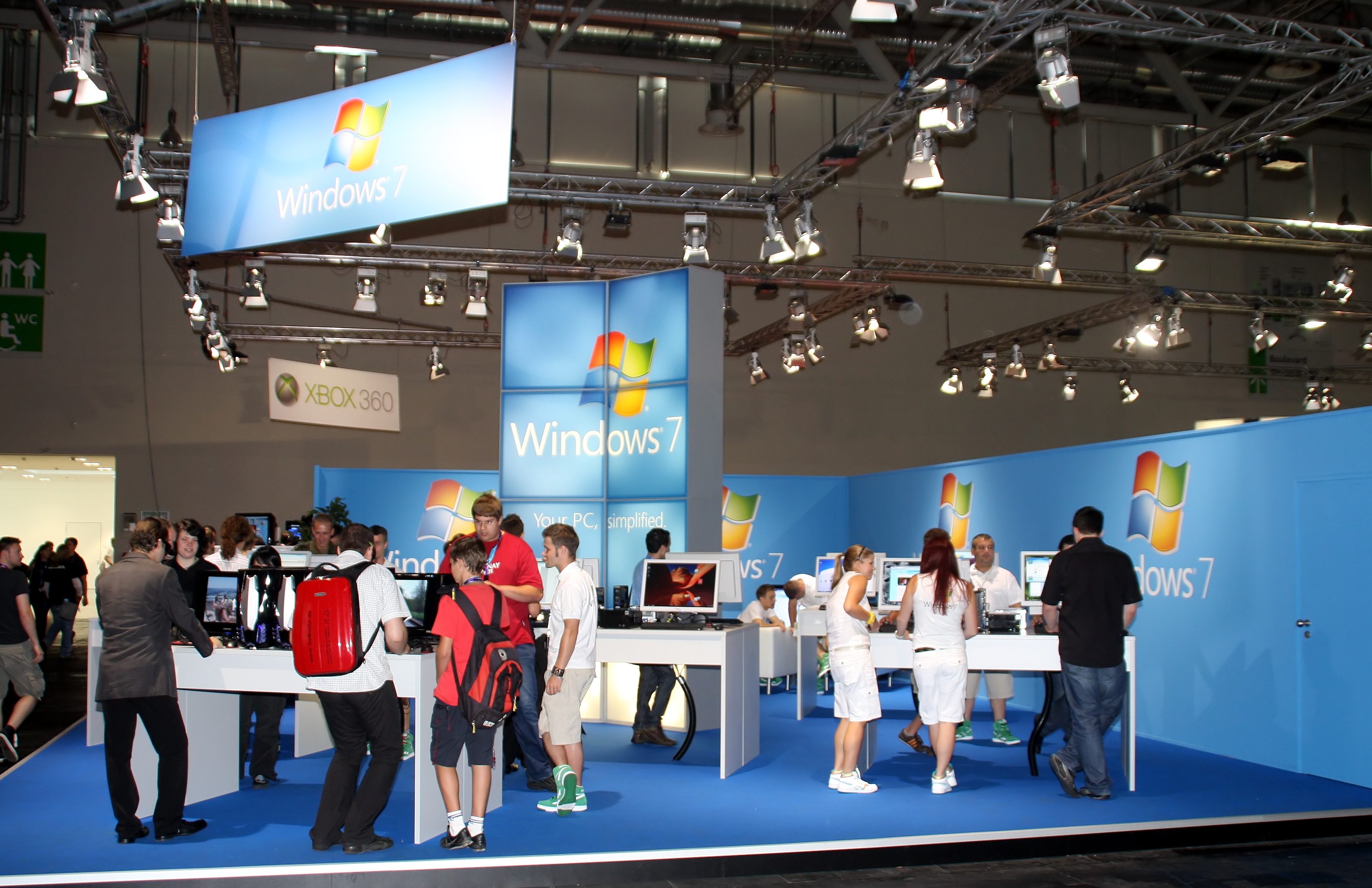 Booth of Microsoft, presenting Windows 7, on the Gamescom 2009, Cologne